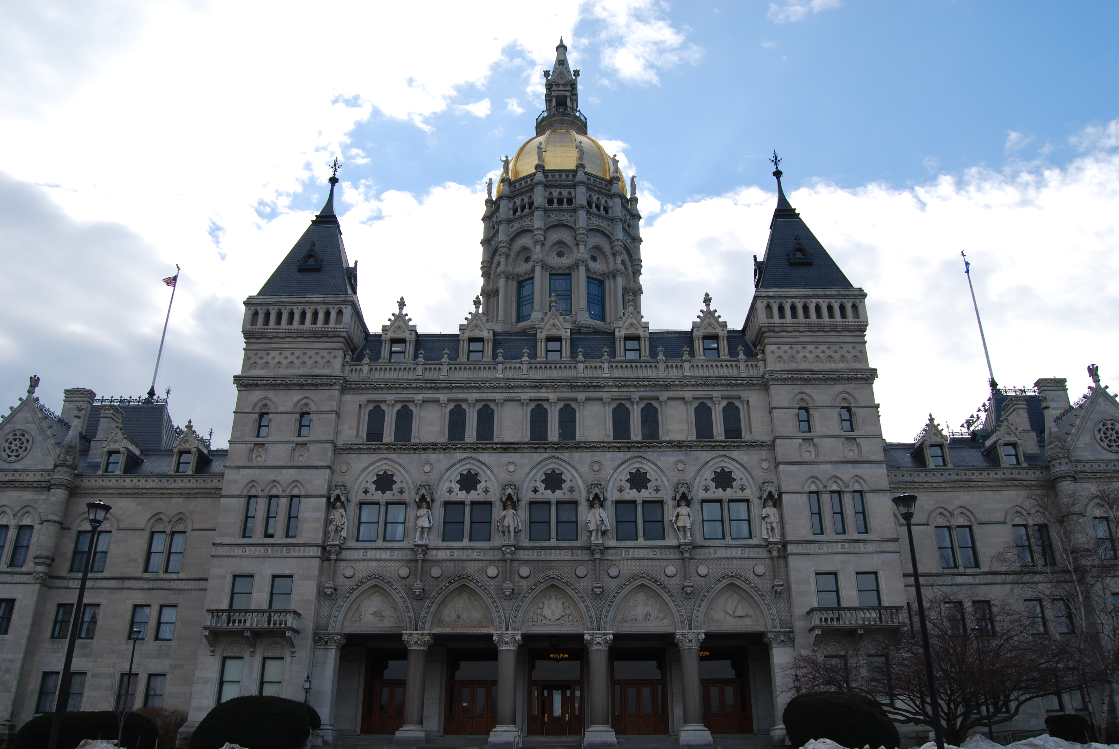 CT State Capitol bldg in Hartford, Conn